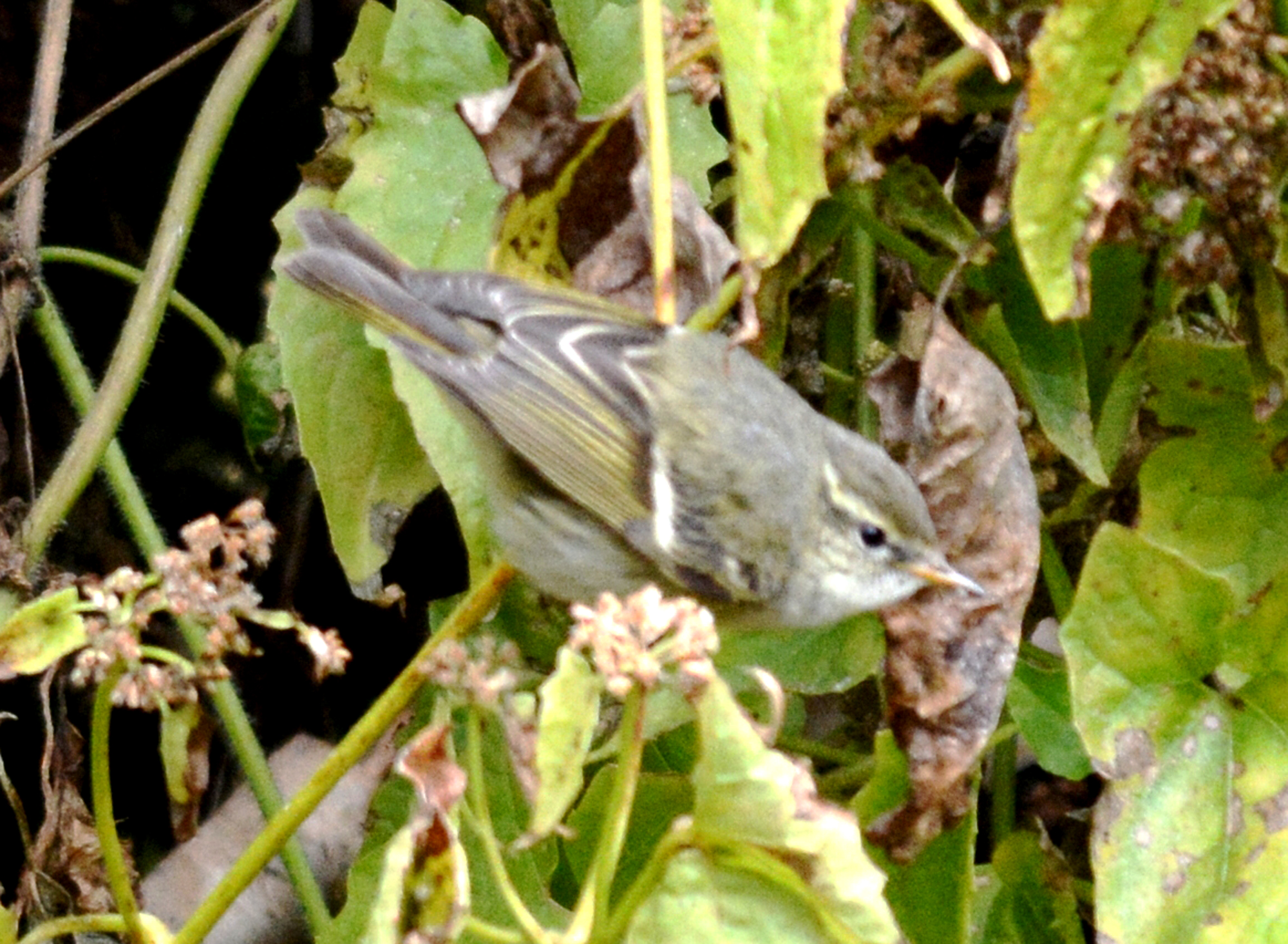 Yellow-browed Leaf-warbler Phylloscopus inornatus. Photographed by Dr. Raju Kasambe in Mizoram, India.